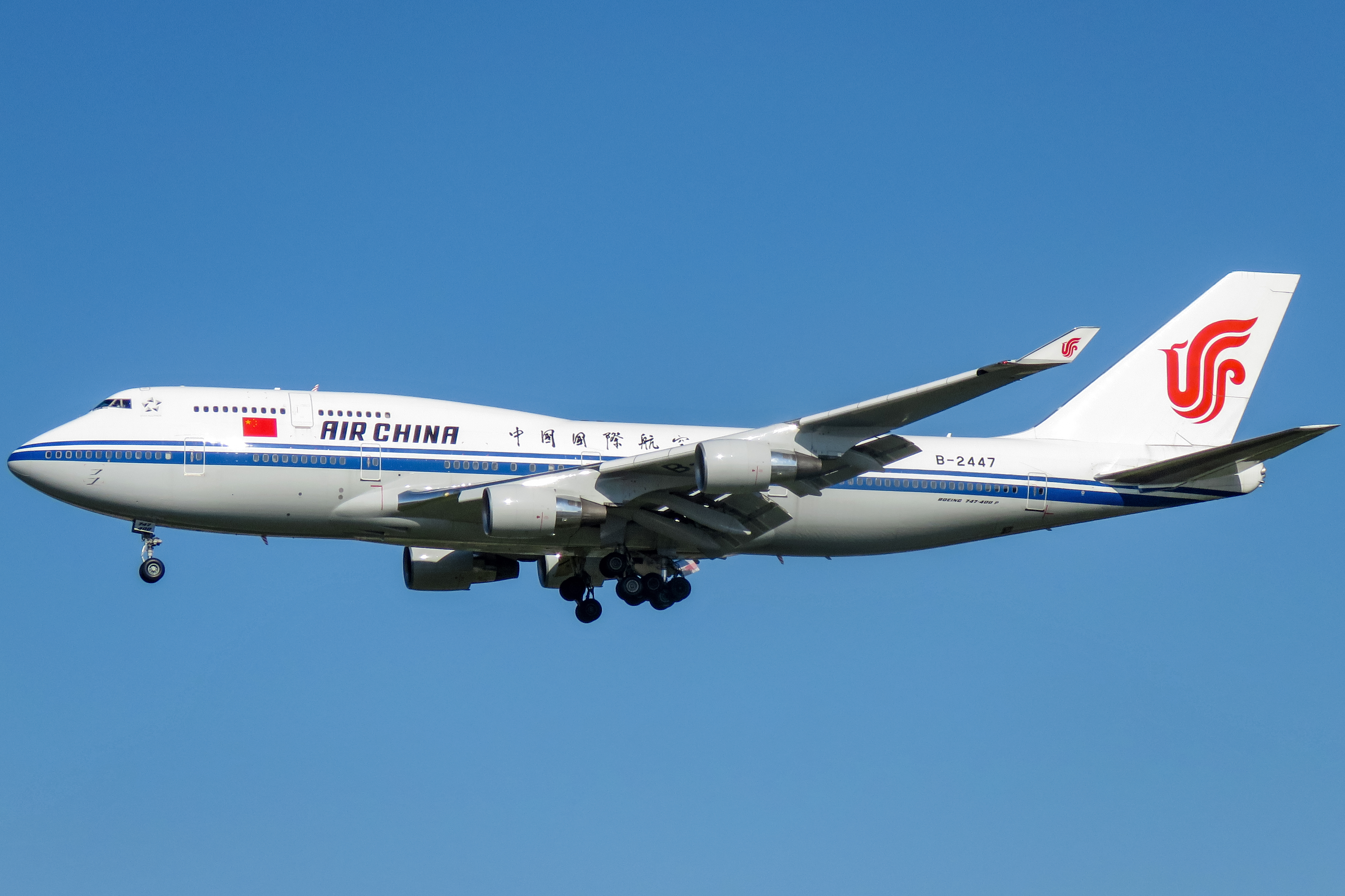 Air China 1896 from Shenzhen - The Elder's 93rd Celebration.